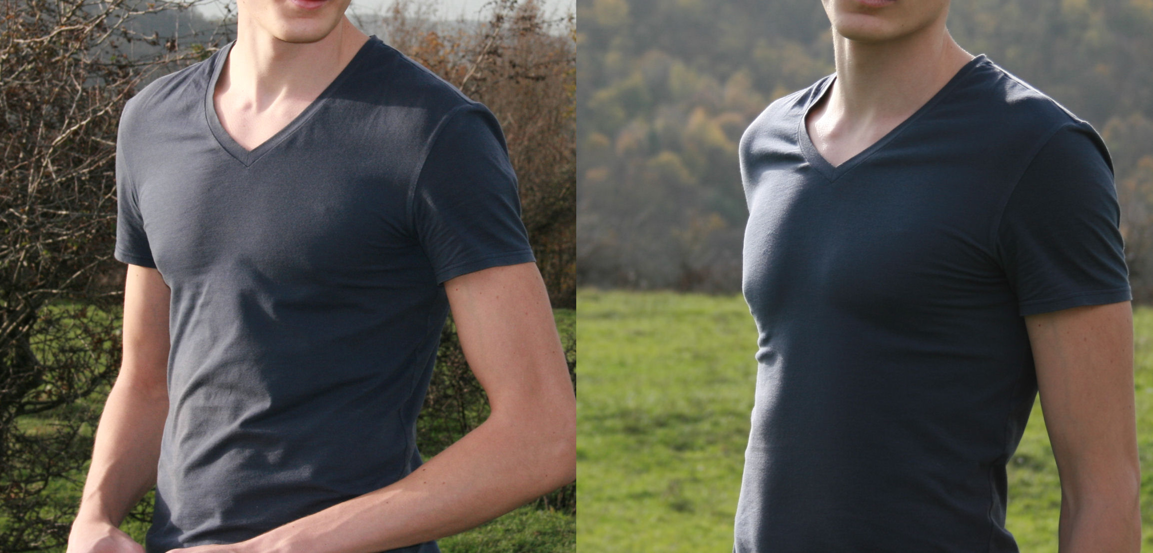 Example of blue undershirt with sleeve. Pictures cropped and collage